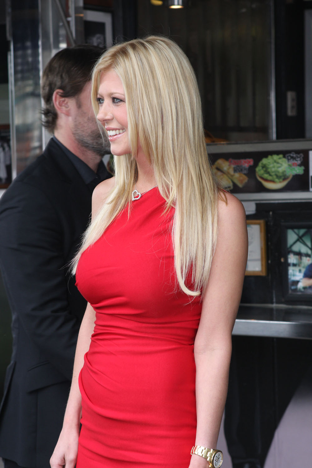 Tara Reid at the American Pie Reunion, Harry's Cafe de Wheels Sydney 2012